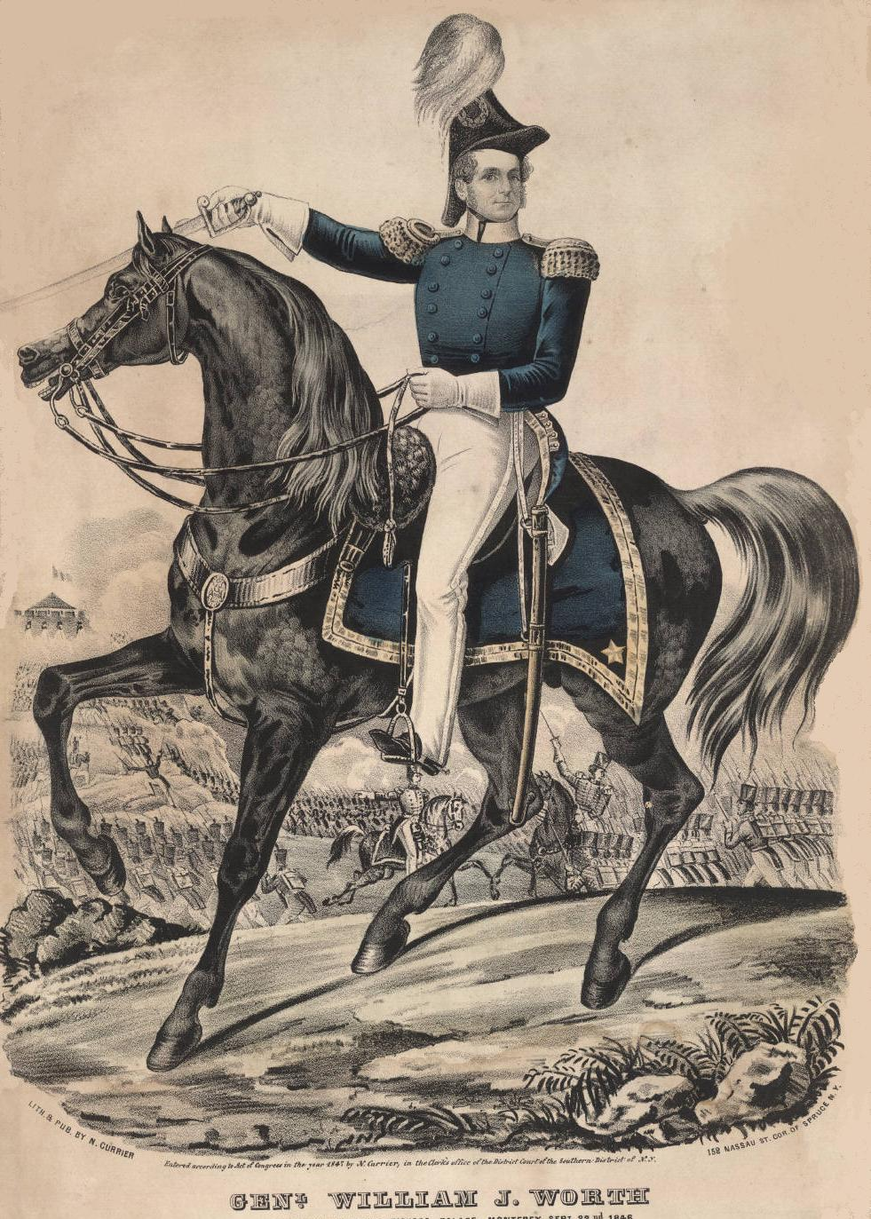 Lithographic portrait of General William J. Worth USA (March 1, 1794 – May 7, 1849) titled Genl. William J. Worth at the Storming of the Bishop's Palace, Monterey Sept 22nd 1846 [viz., Battle of Monterrey)]